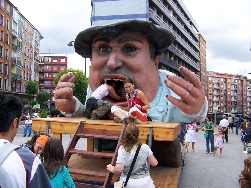 A youth's helping a kid into Gargantua's mouth (a figure of a giant in stereotypical farmer's garments, with a slide inside) in Santutxu, Bilbao.